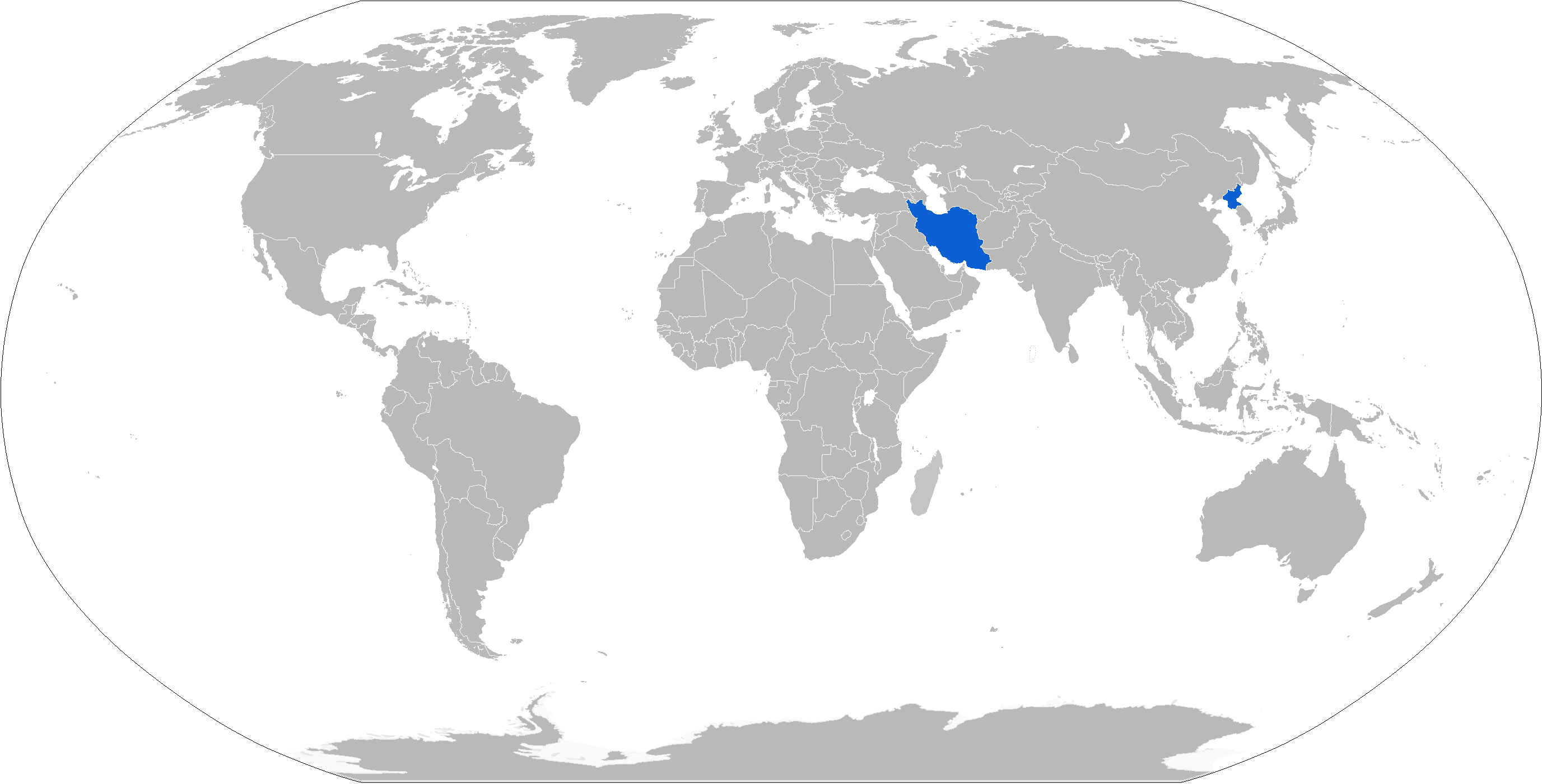 Map with BM25 operators in blue